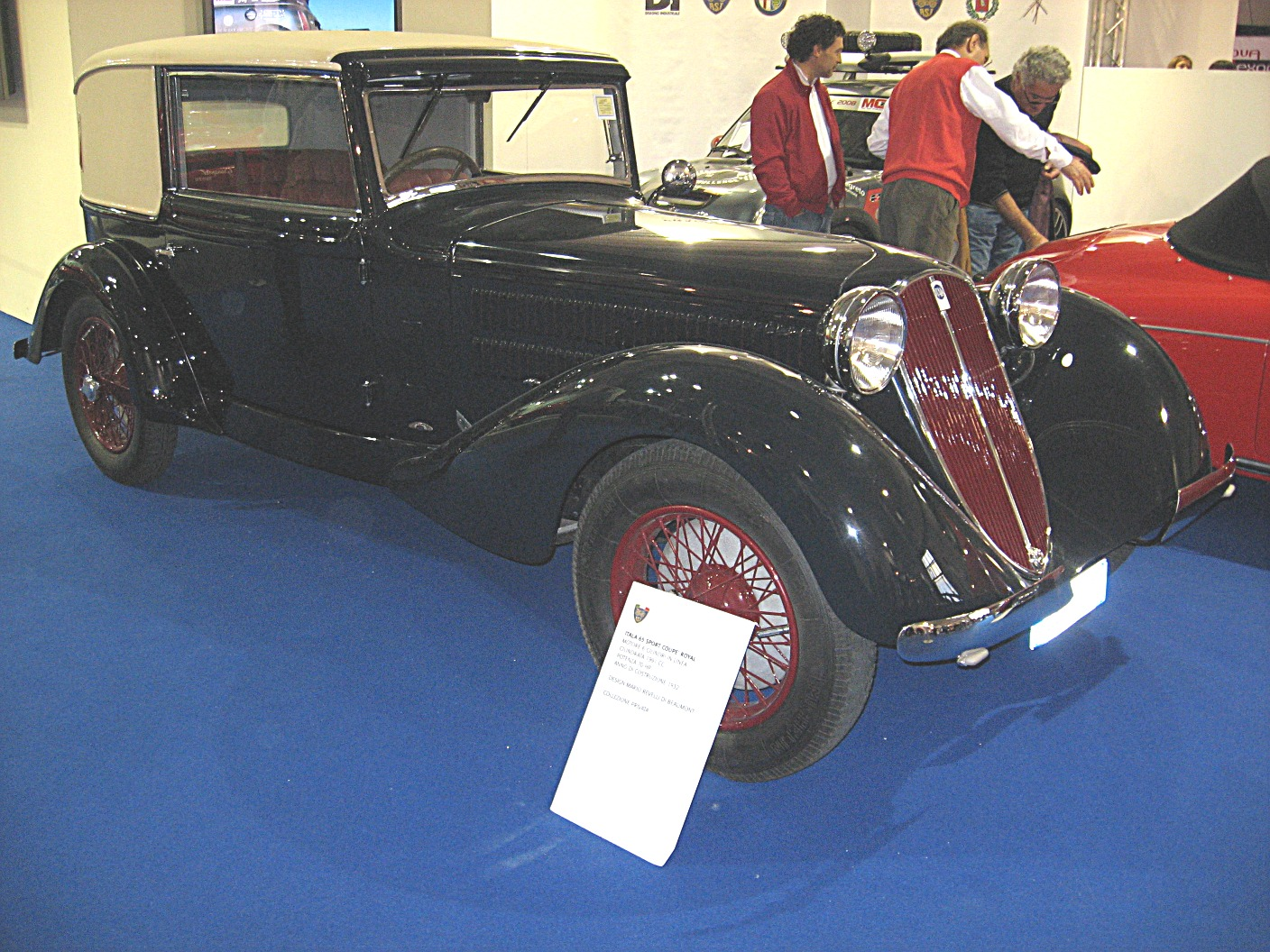 Subject: Itala 65 Sport Coupé Royal del 1932, carrozzato Ghia su disegno di Mario Revelli di Beaumont Date:October 26th, 2008 Event: Auto e Moto d'Epoca 2008 Place/Country: Padova, Italy I release all rights in the public domain.